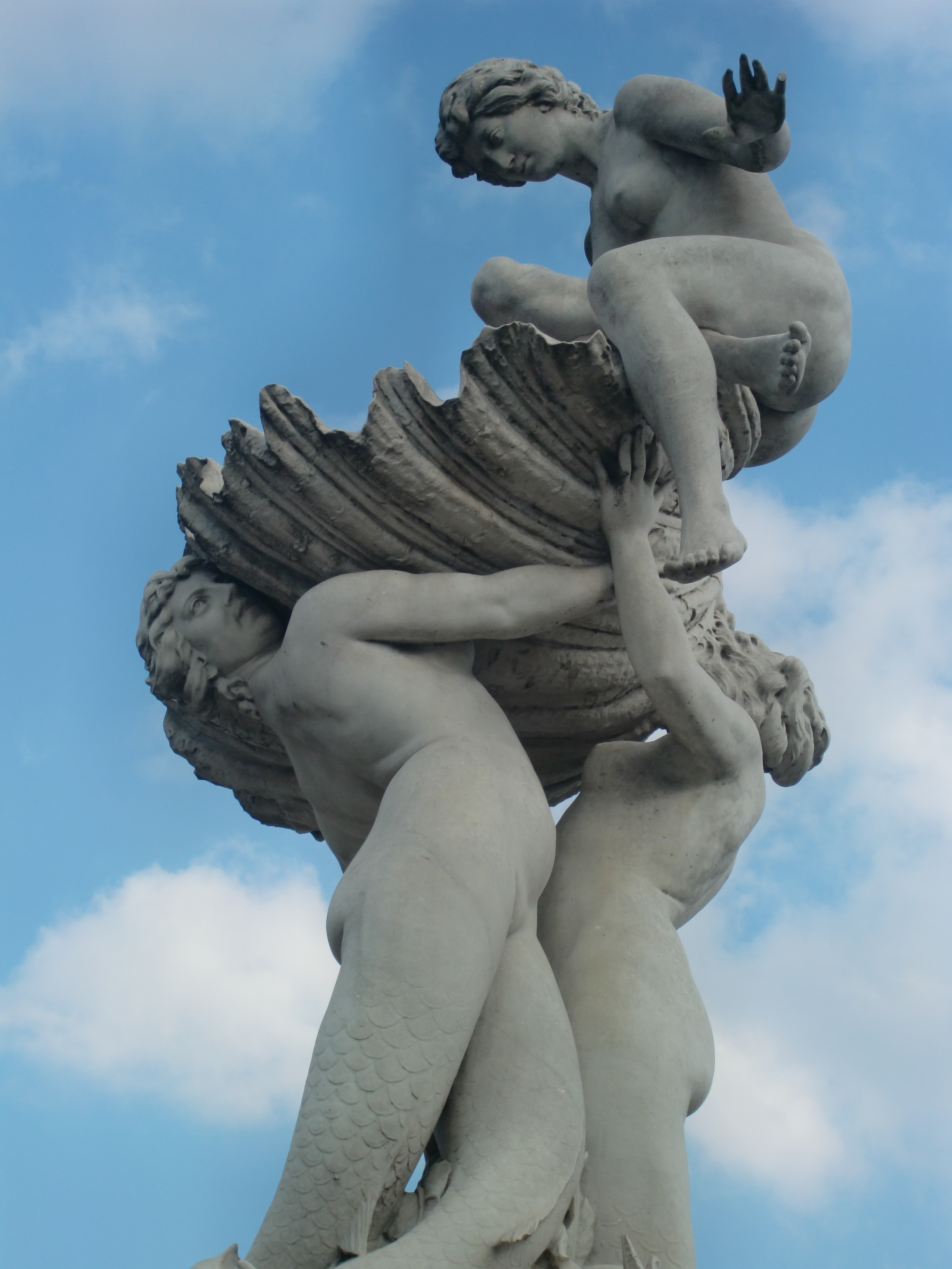 Fuente de las Nereidas by Lola Mora